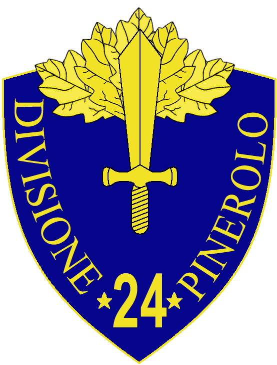 24a Divisione Fanteria Pinerolo insignia, Regio Esercito, Italy, WWII